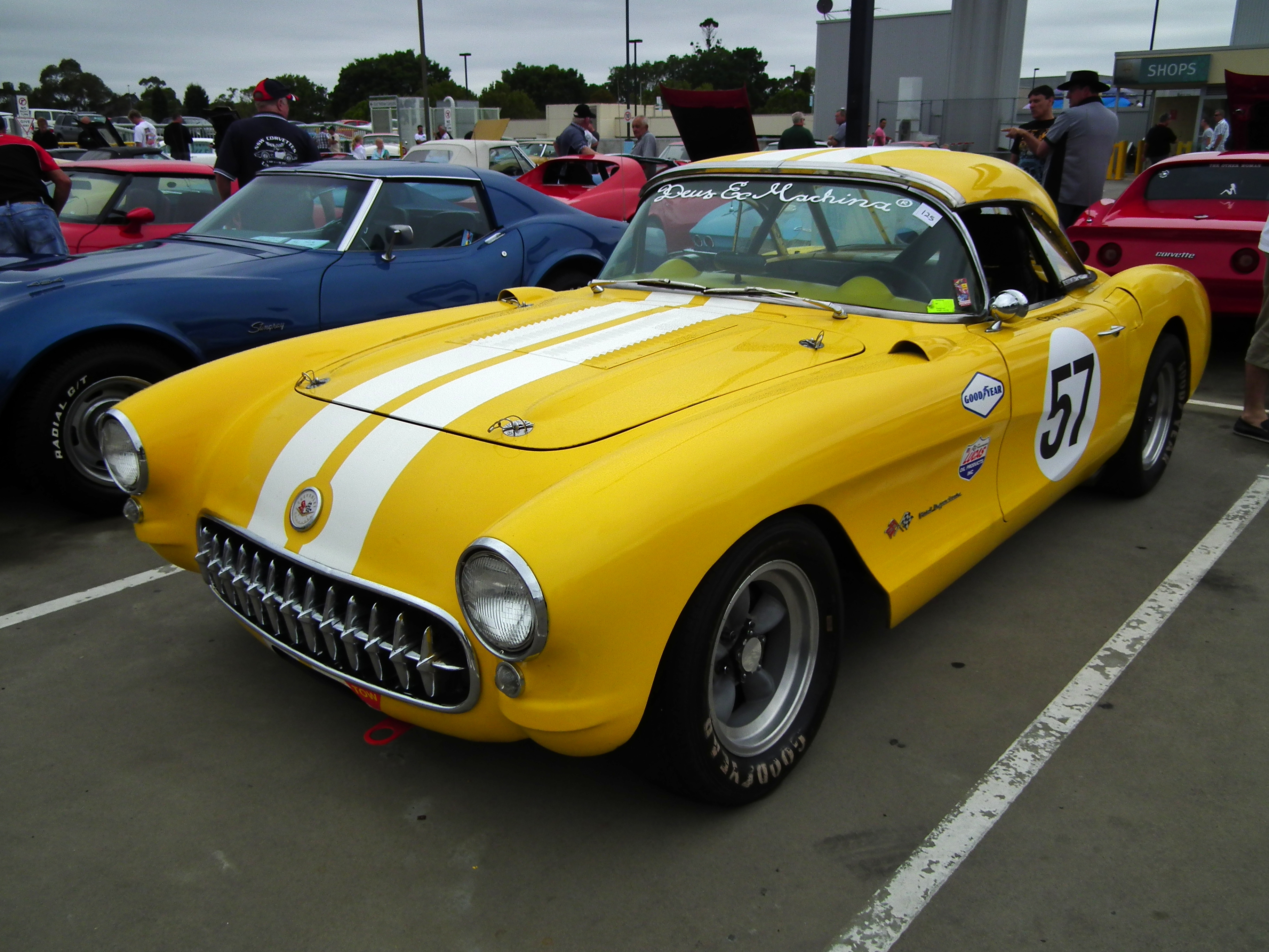 1957 Chevrolet C1 Corvette roadster racer. Taken at the 2013 New South Wales All American Day, held at Castle Towers Shopping Centre, Castle Hill, Sydney.